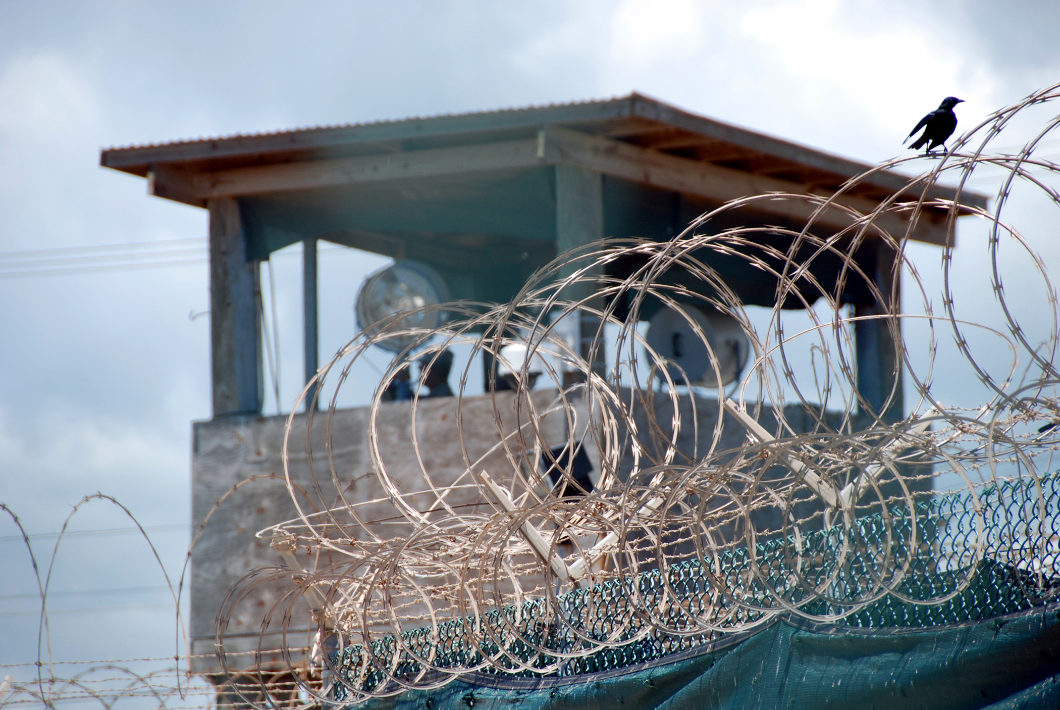 GUANTANAMO BAY, Cuba - A guard stands duty in a tower over Camp Delta Sept. 12, 2007. (JTF Guantanamo photo by Army Sgt. Joseph Scozzari)